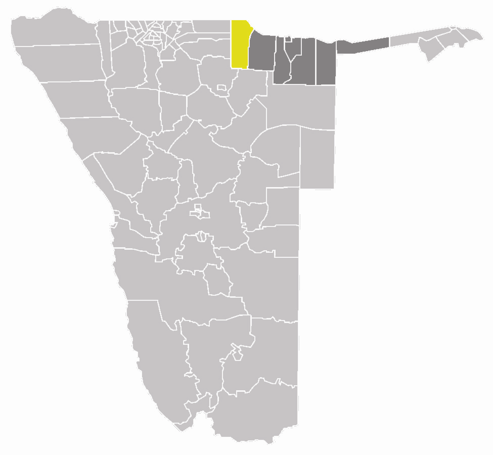 map of the Mpungu constituency within the Kavango region, Namibia